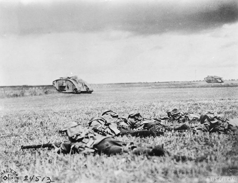 Infantry Behind Tanks. One Platoon of Infantry Follows Up Each Tank. 107th Regiment Infantry, 27th Division. Near Beauquesnes, Somme